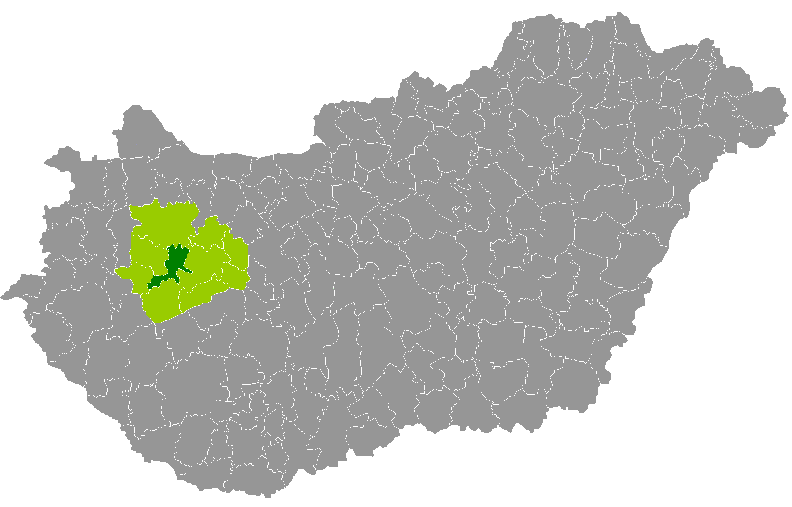 Location of Ajka District, Veszprém, Hungary